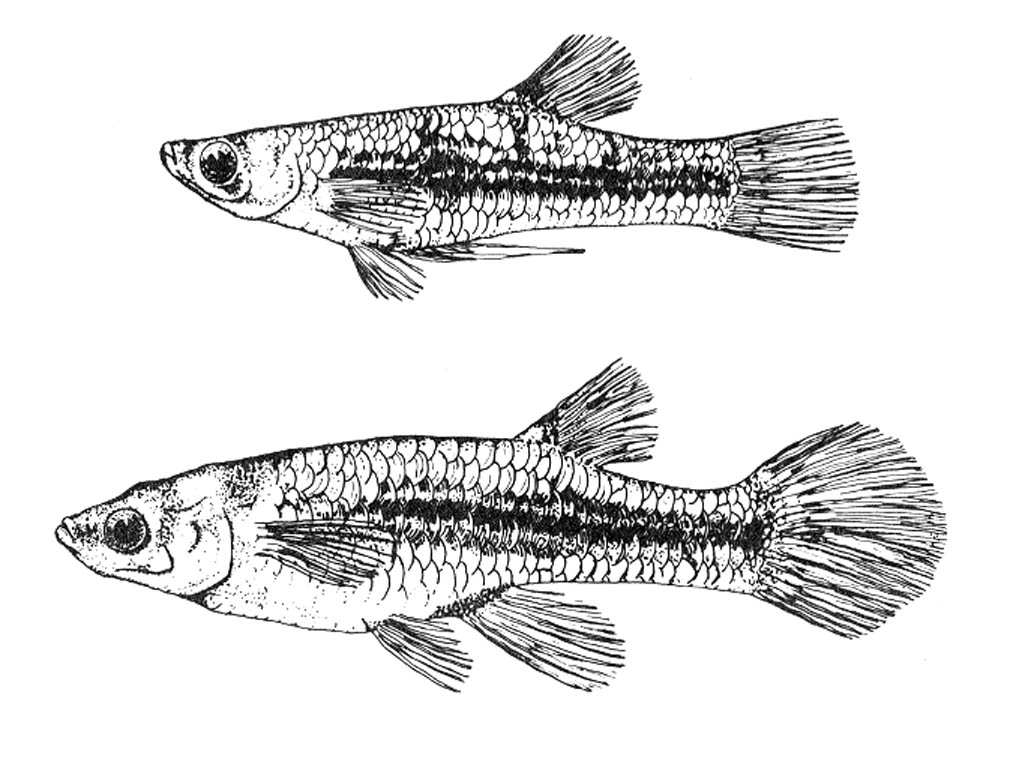 Some poeciliids. Note the male (above) with a gonopodium instead of an anal fin.